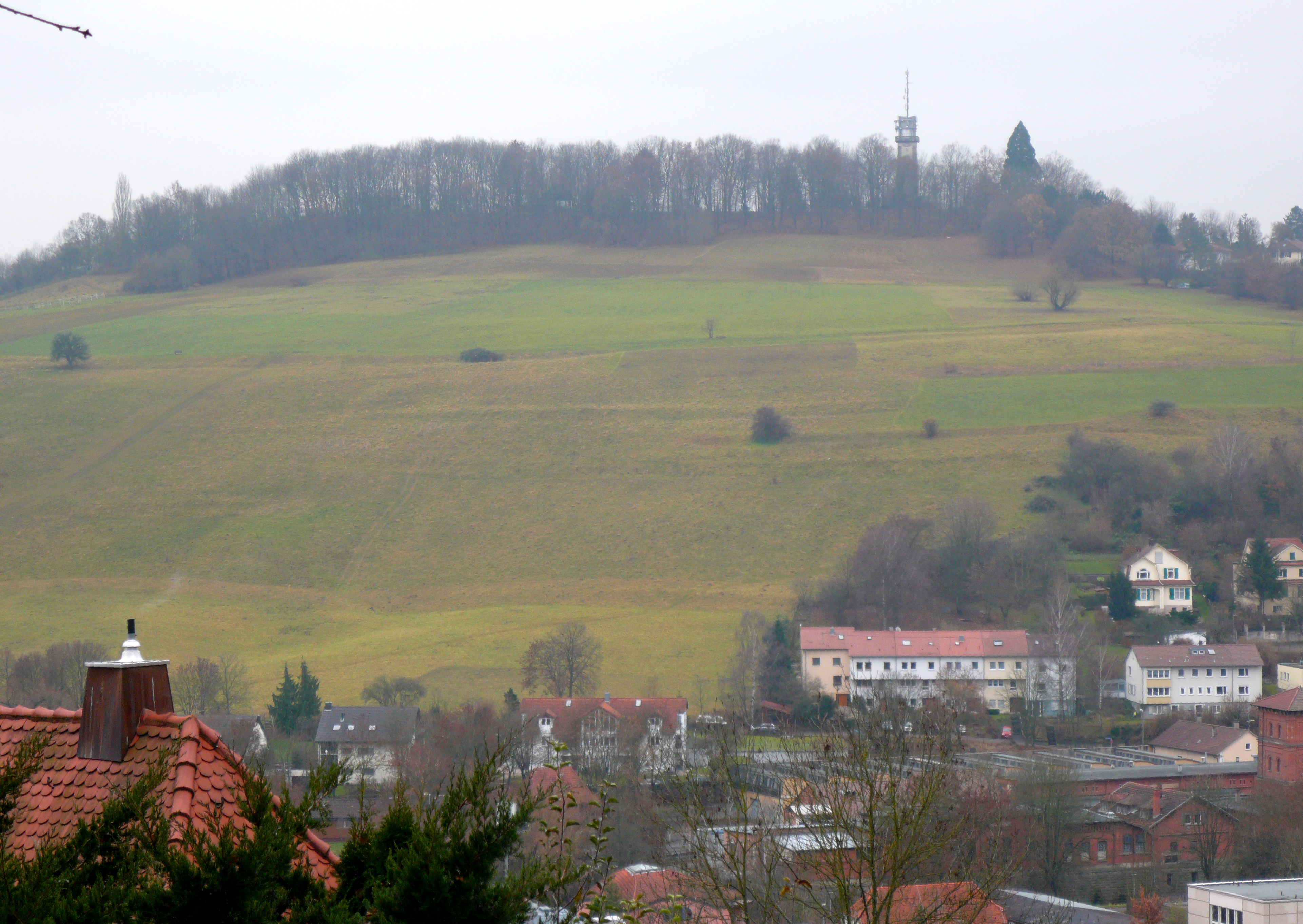 Österberg from North side